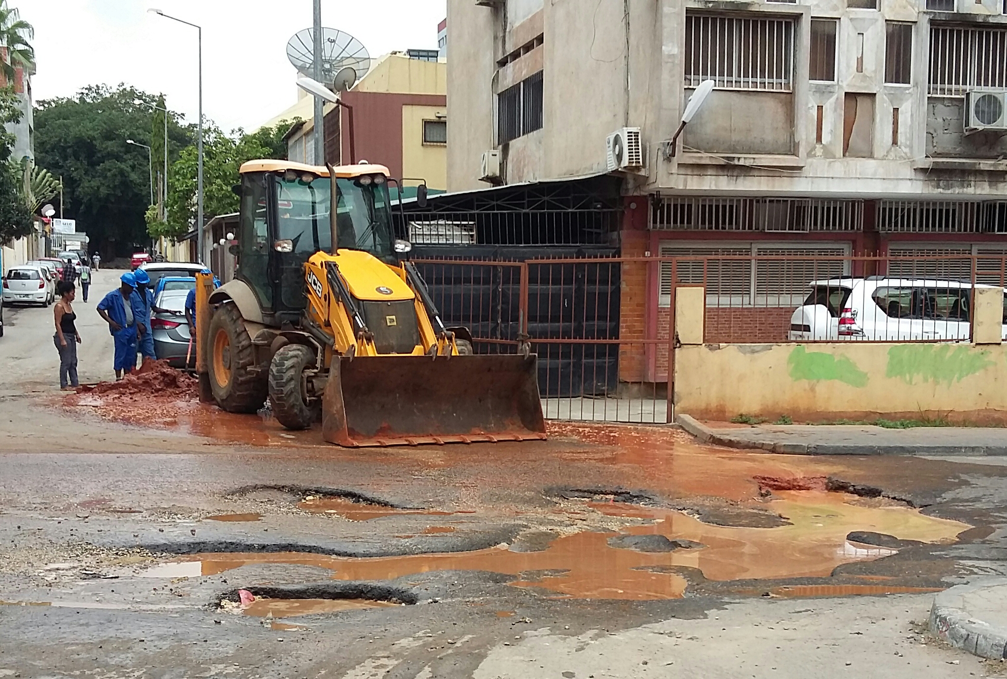 Everytime the fix the road the water pipes burst and the road gets broken. So they have to fix the water first. But they have to switch off the power first because the pipe is underneath the electric junction... This is an image of "African people at work" from Angola